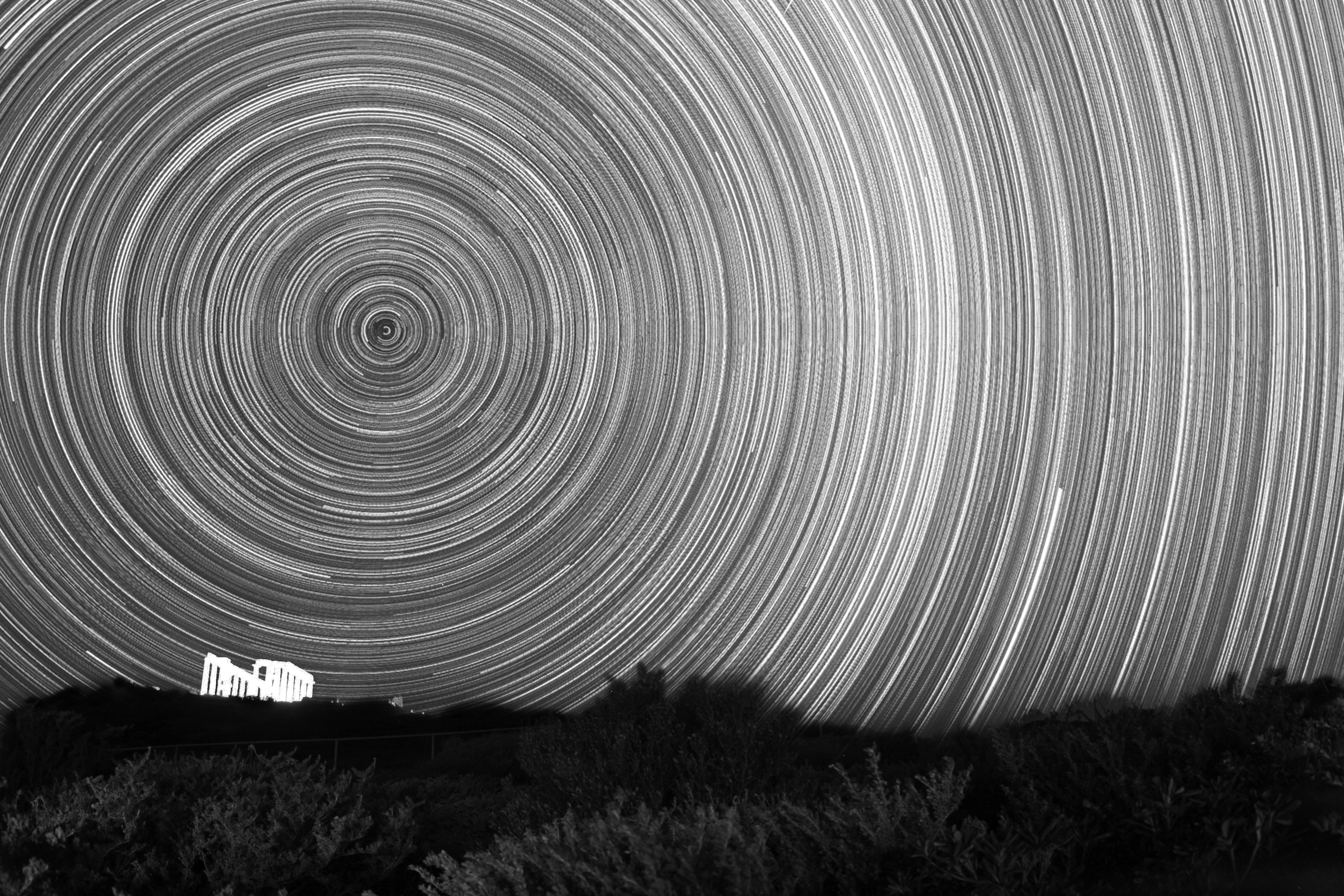 Sounion Temple of Poseidon Startrails